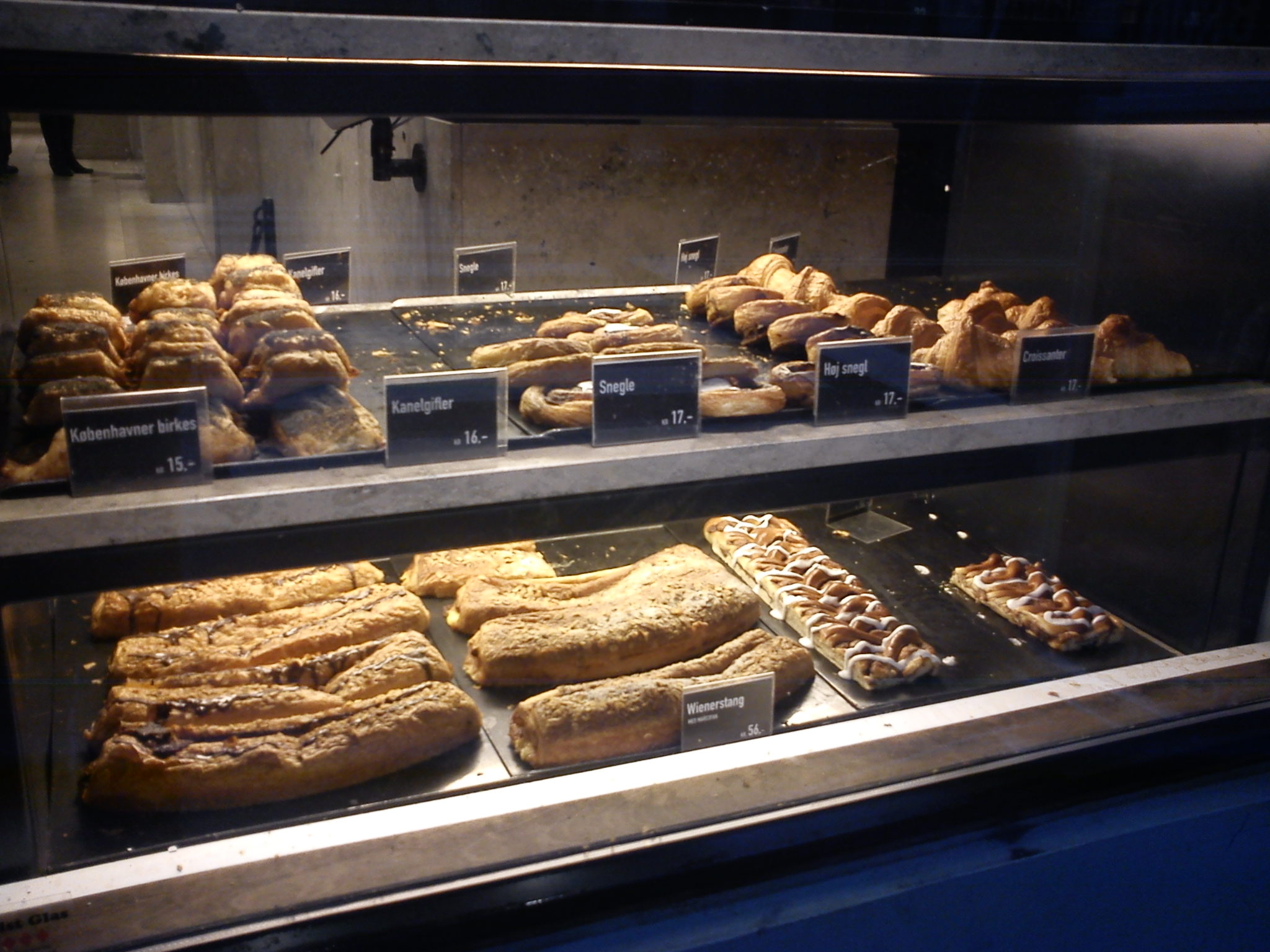 Danish Pastry for sale in a bakery in Denmark. 'Københavner Birkes' (aka 'Tebirkes'), 'Kanelgifler' (sold out), 'Snegle', 'Høj Snegl', Croissants, 'Wienerstang' and 'Kanelstang' (hidden tag).